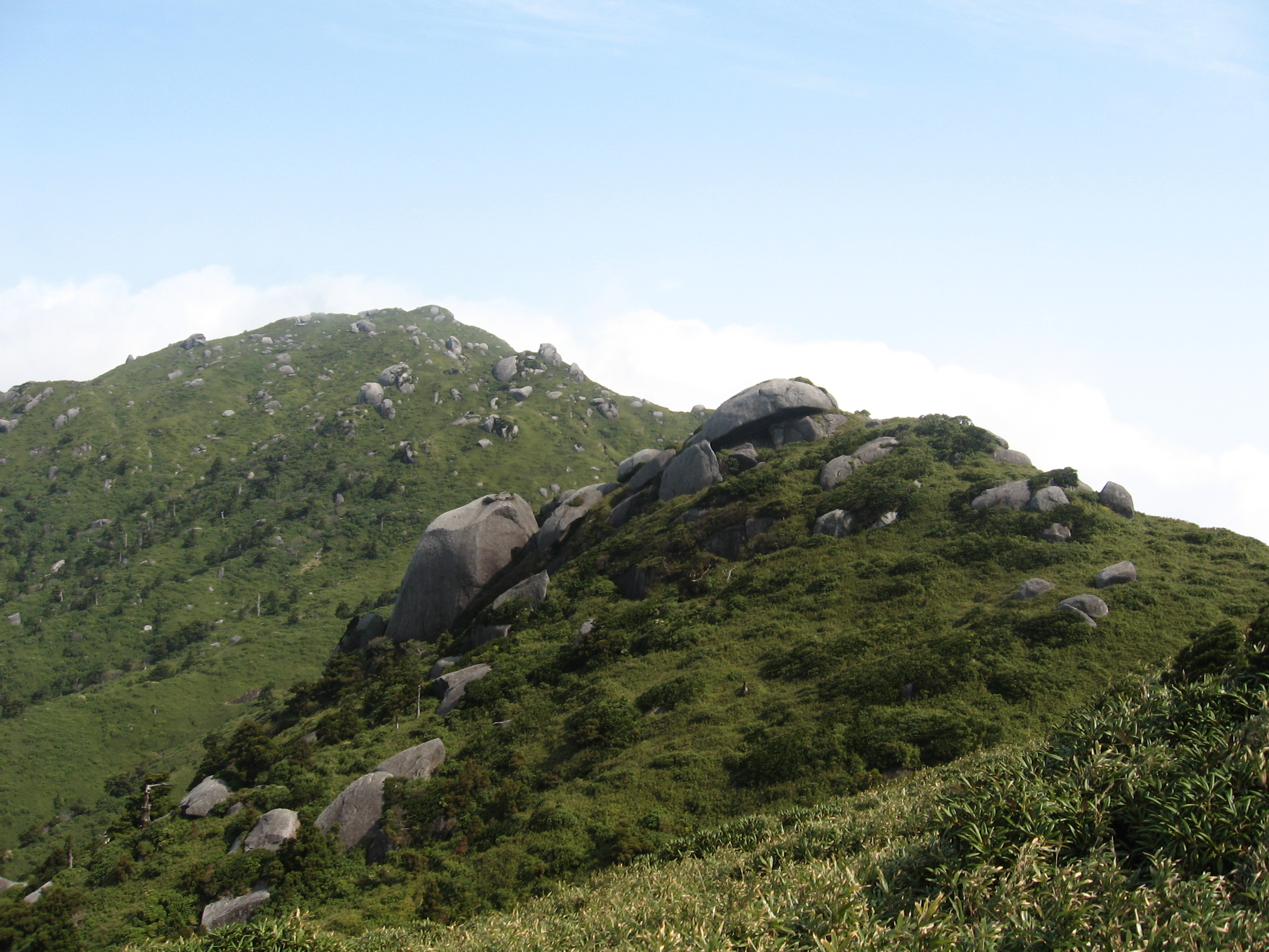 Mount Miyanoura (left), Mount Miyanoura (right)